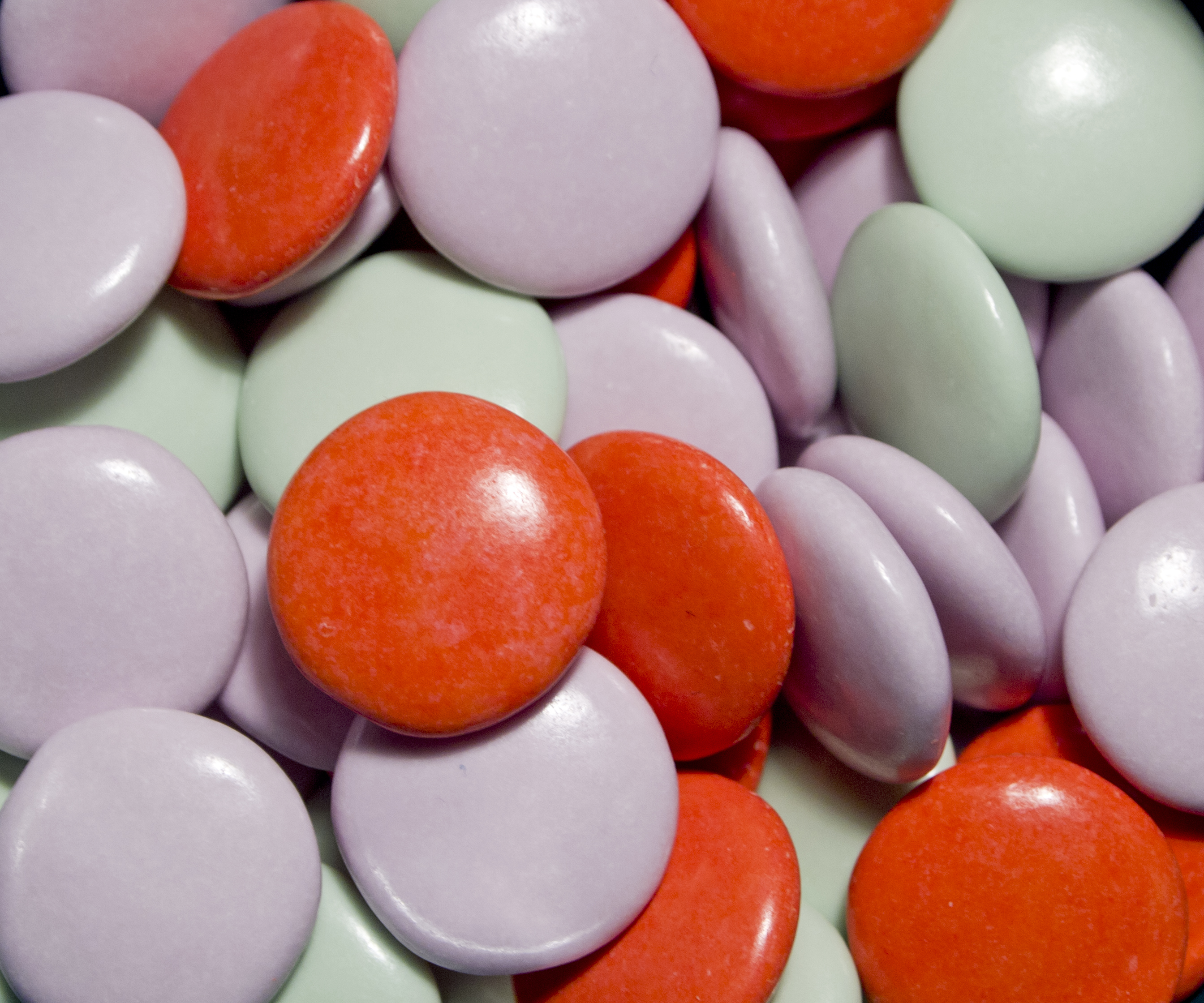 Chocolate filled candies "Amerikan pastilleja" by Fazer.